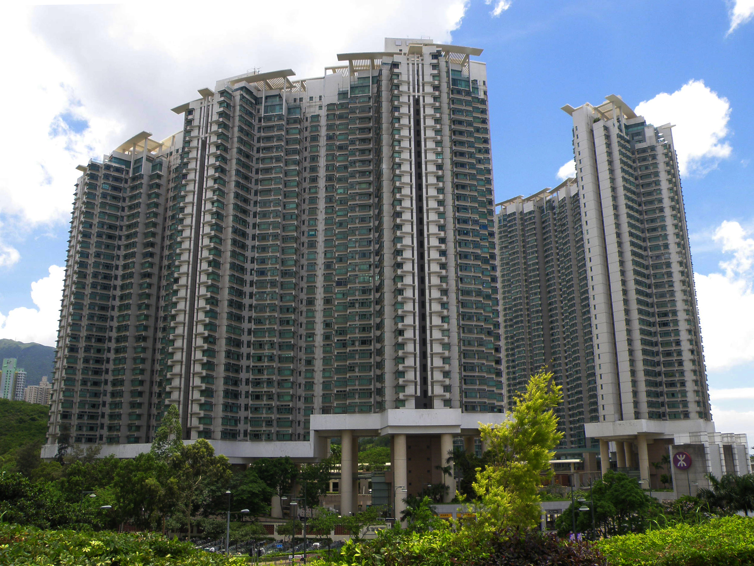 Tung Chung Crescent in Tung Chung, Hong Kong.